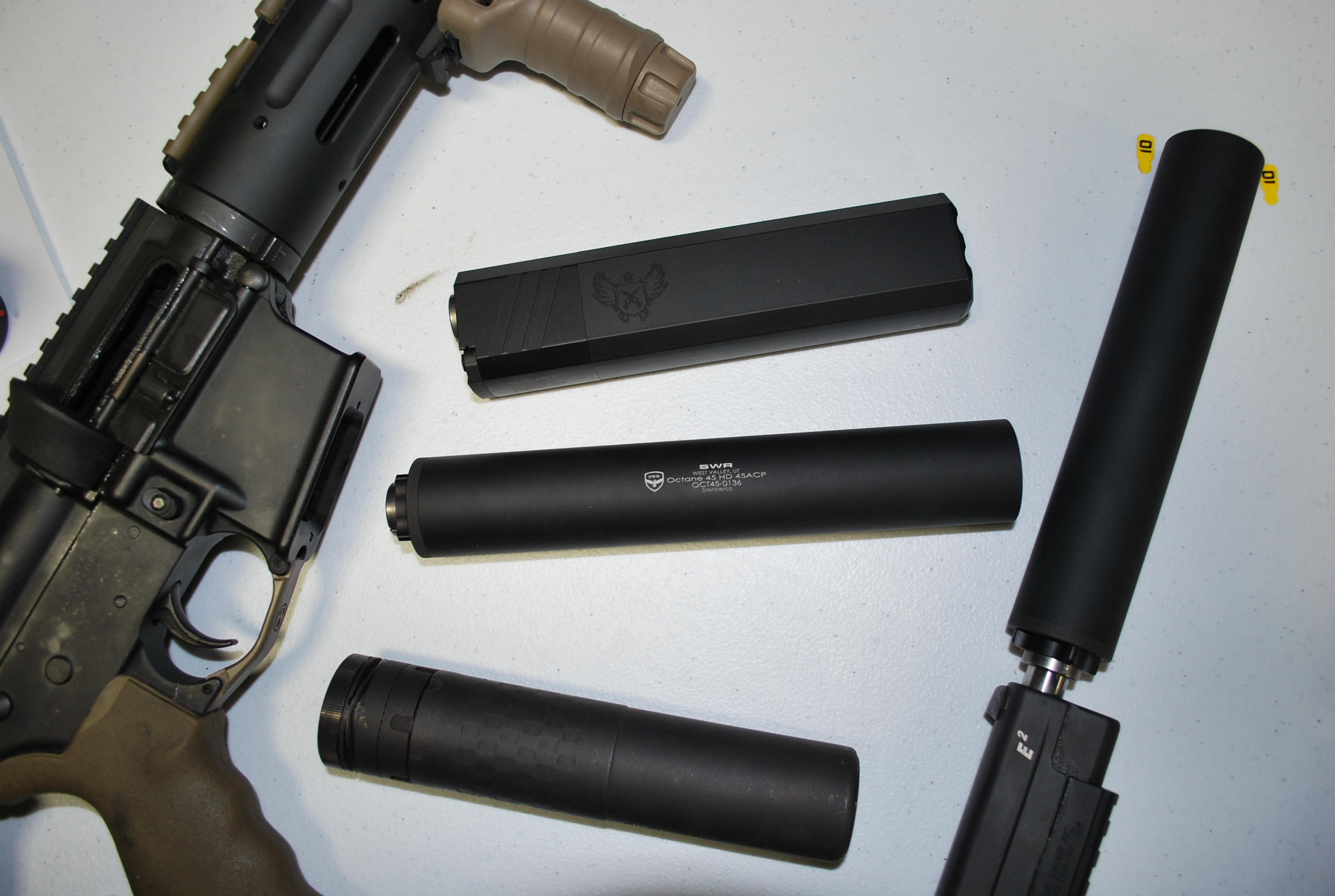 Silencerco Osprey 9, SWR Octane 45, and Silencerco Saker 5.56, with other weapons